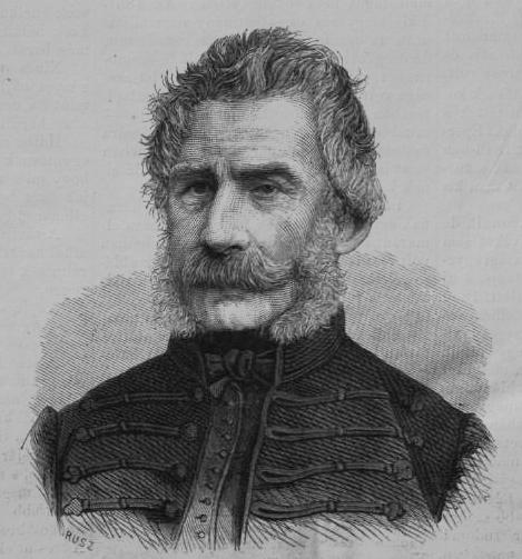 Portrait of György Andrássy